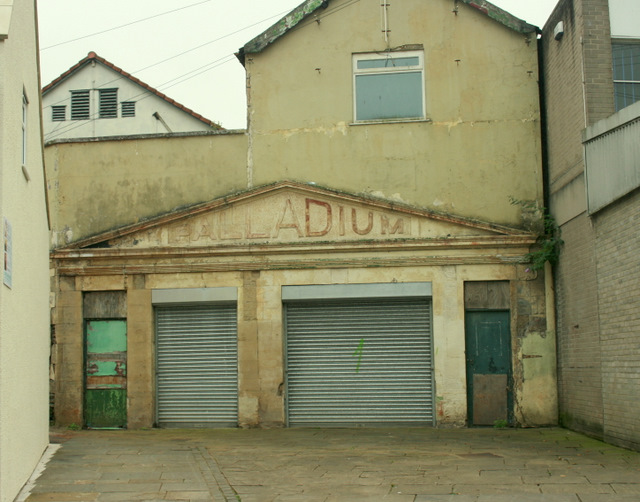 The Palladium, Midsomer Norton